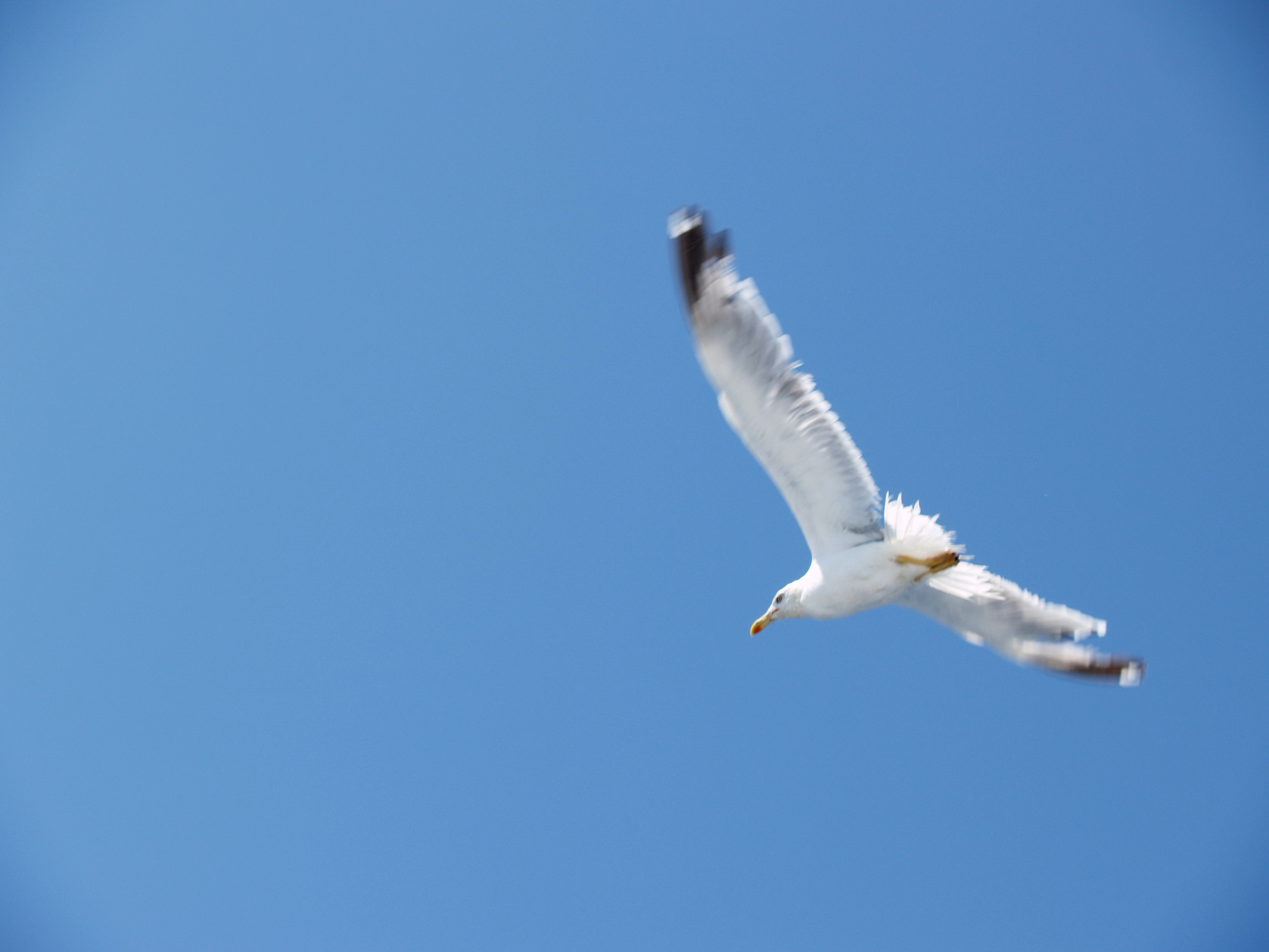 Larus michahellis (Yellow-legged Gull).